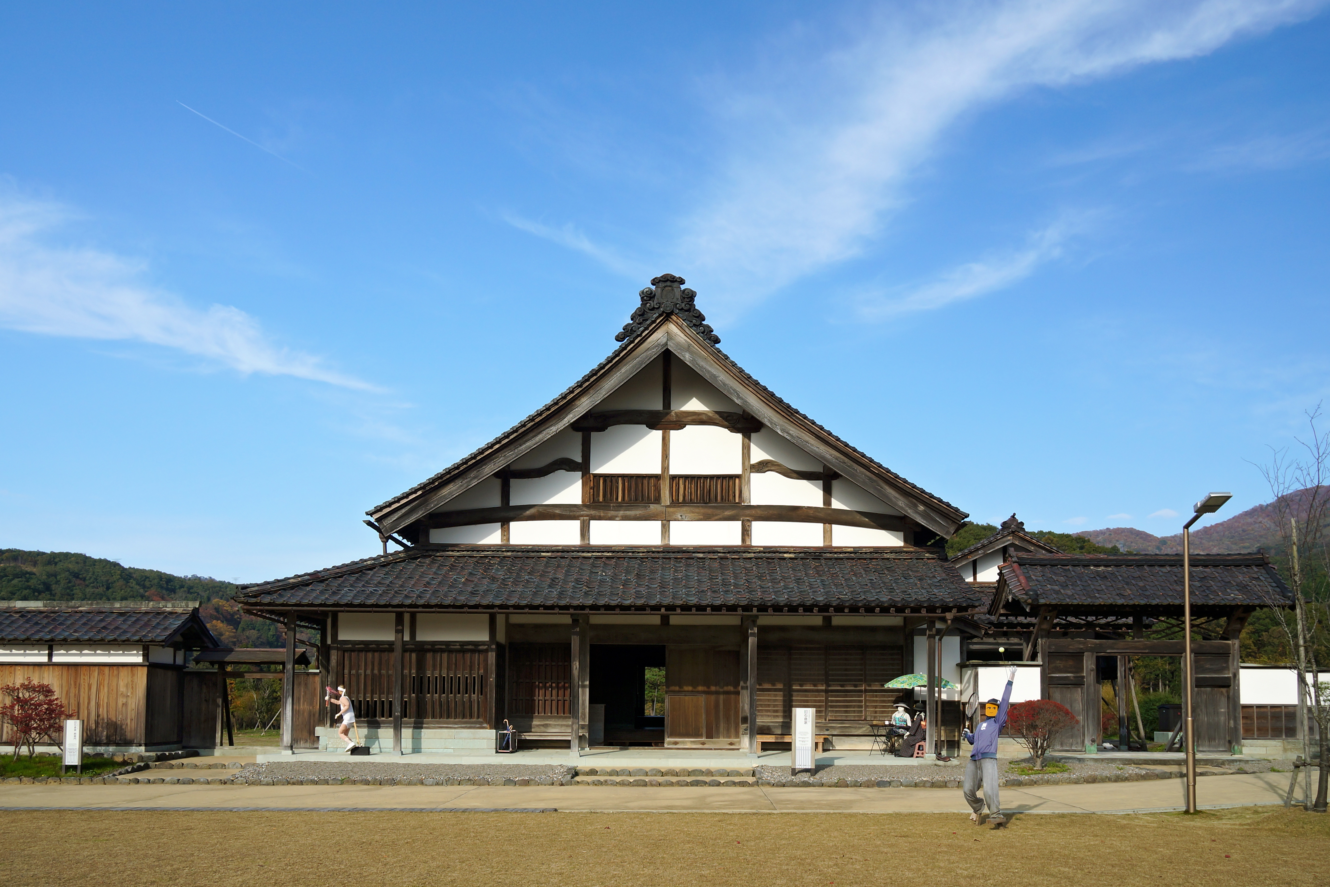 At Kanazawa Yuwaku Edomura in Kanazawa, Ishikawa prefecture, Japan.